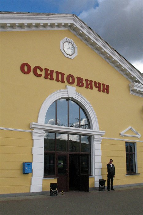 Railway station of Asipovichy (Асiповiчы; Осиповичи) in Mahilev region, Belarus.